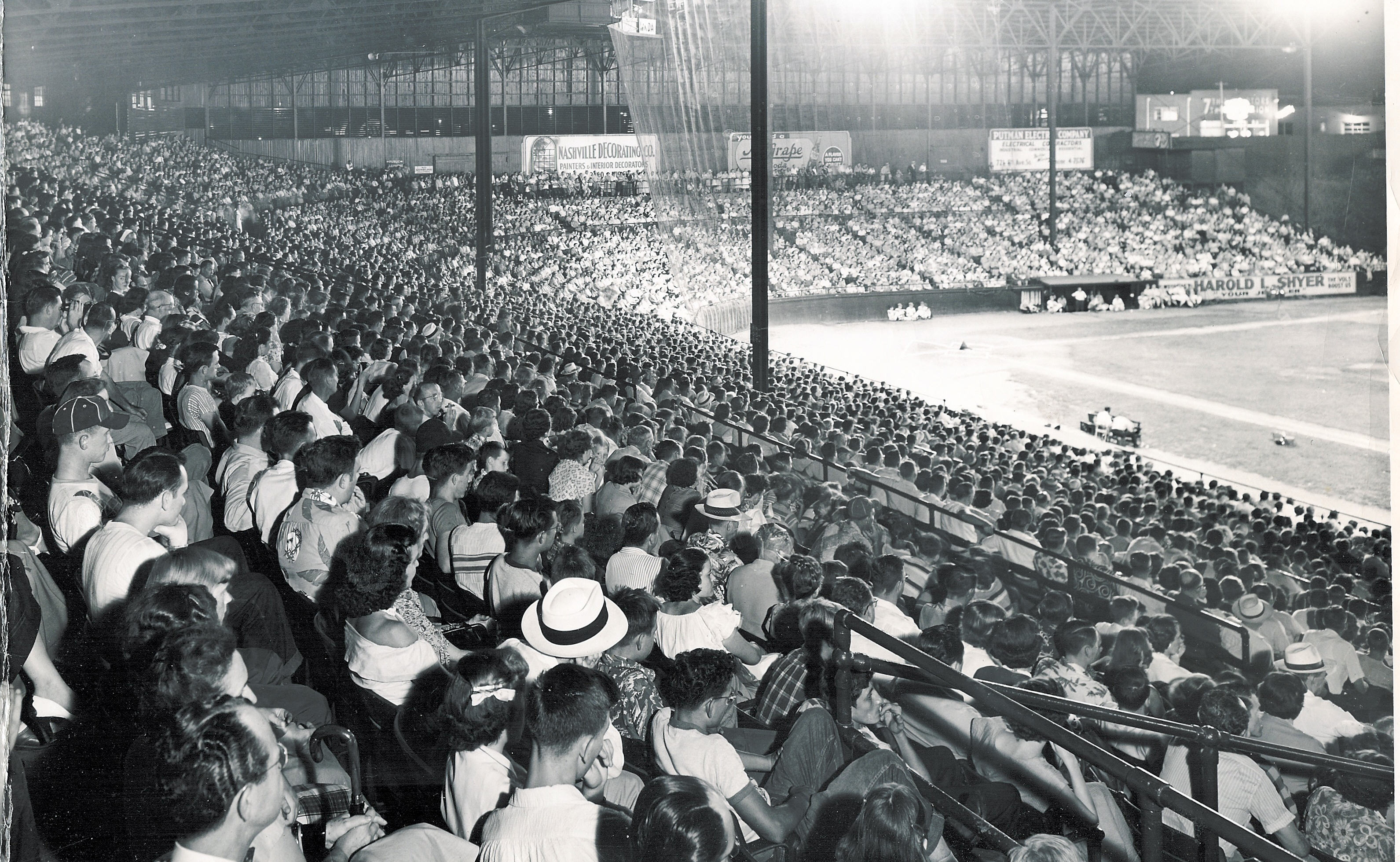 A baseball game at Sulphur Dell, a minor league baseball park in Nashville, Tennessee, in the 1950s